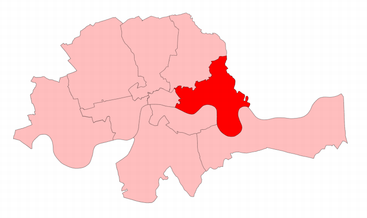 A map of Tower Hamlets constituency within the Metropolitan Board of Works area, as it existed from 1868 to 1885.